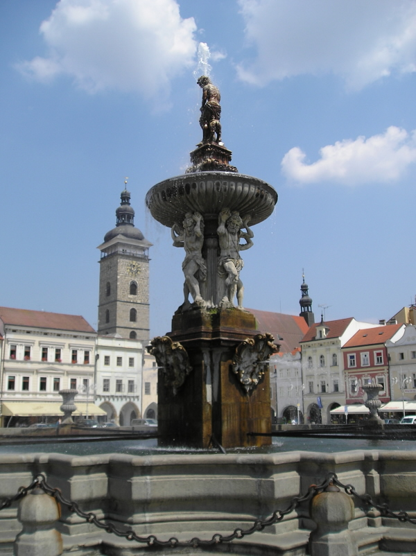 Samson Fountain in náměstí Přemysla Otakara II. (Přemysl Otakar II Square) in České Budějovice